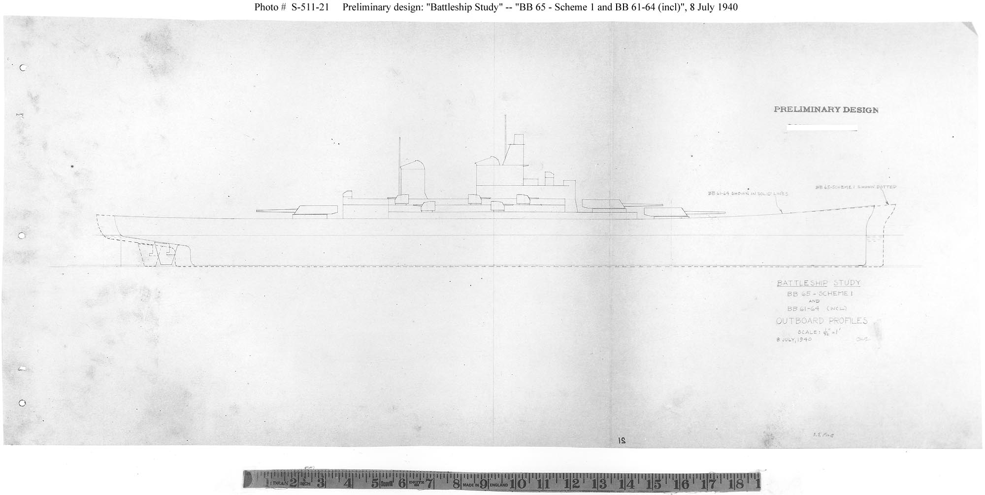 Battleship Study, BB 65 - Scheme 1 and BB 61-64